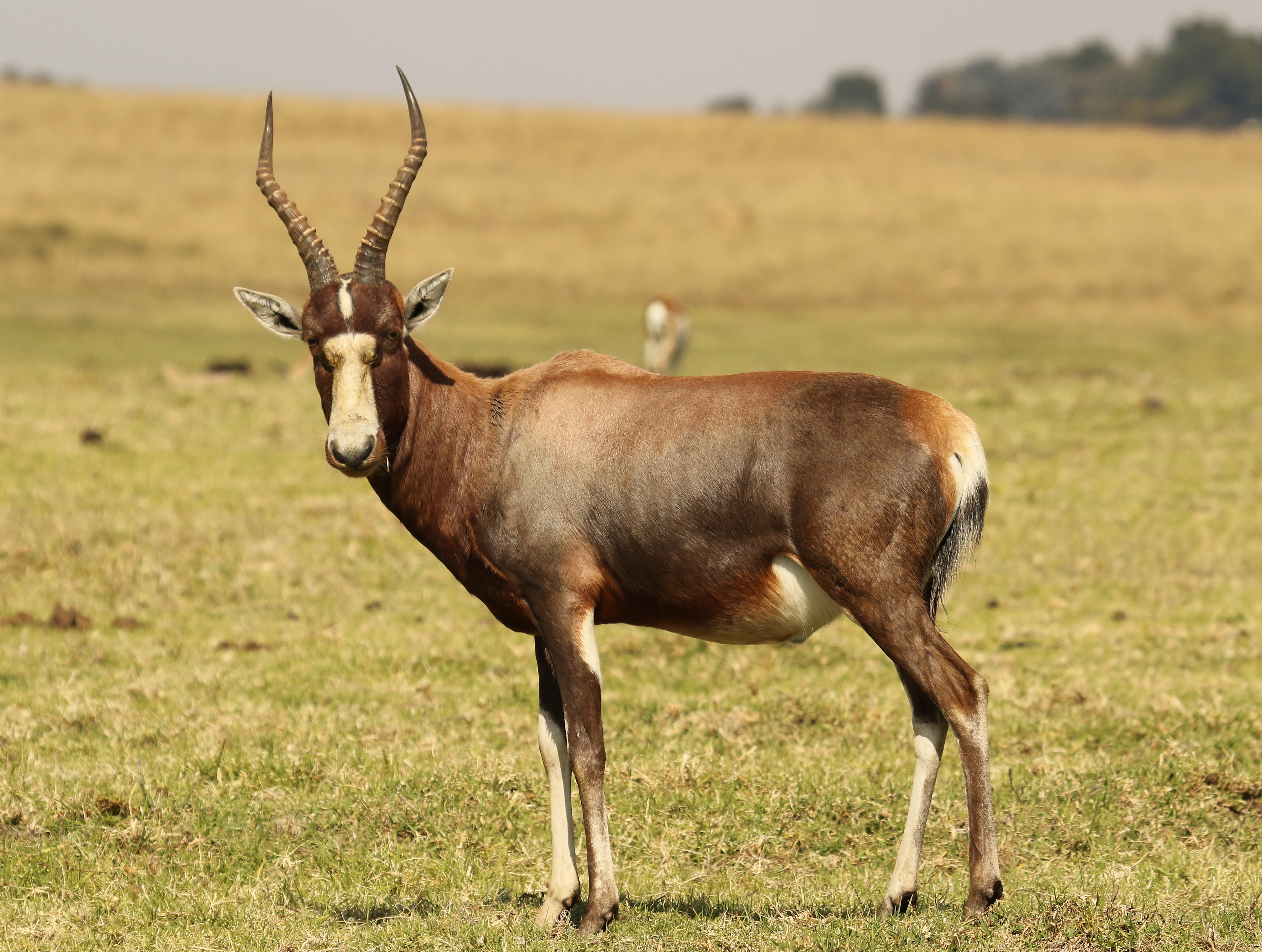 Blesbok, Damaliscus pygargus phillipsi, at Krugersdorp Game Reserve, Gauteng, South Africa